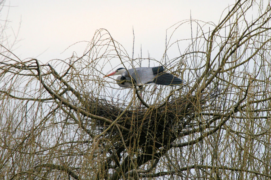 Heron - February 2009